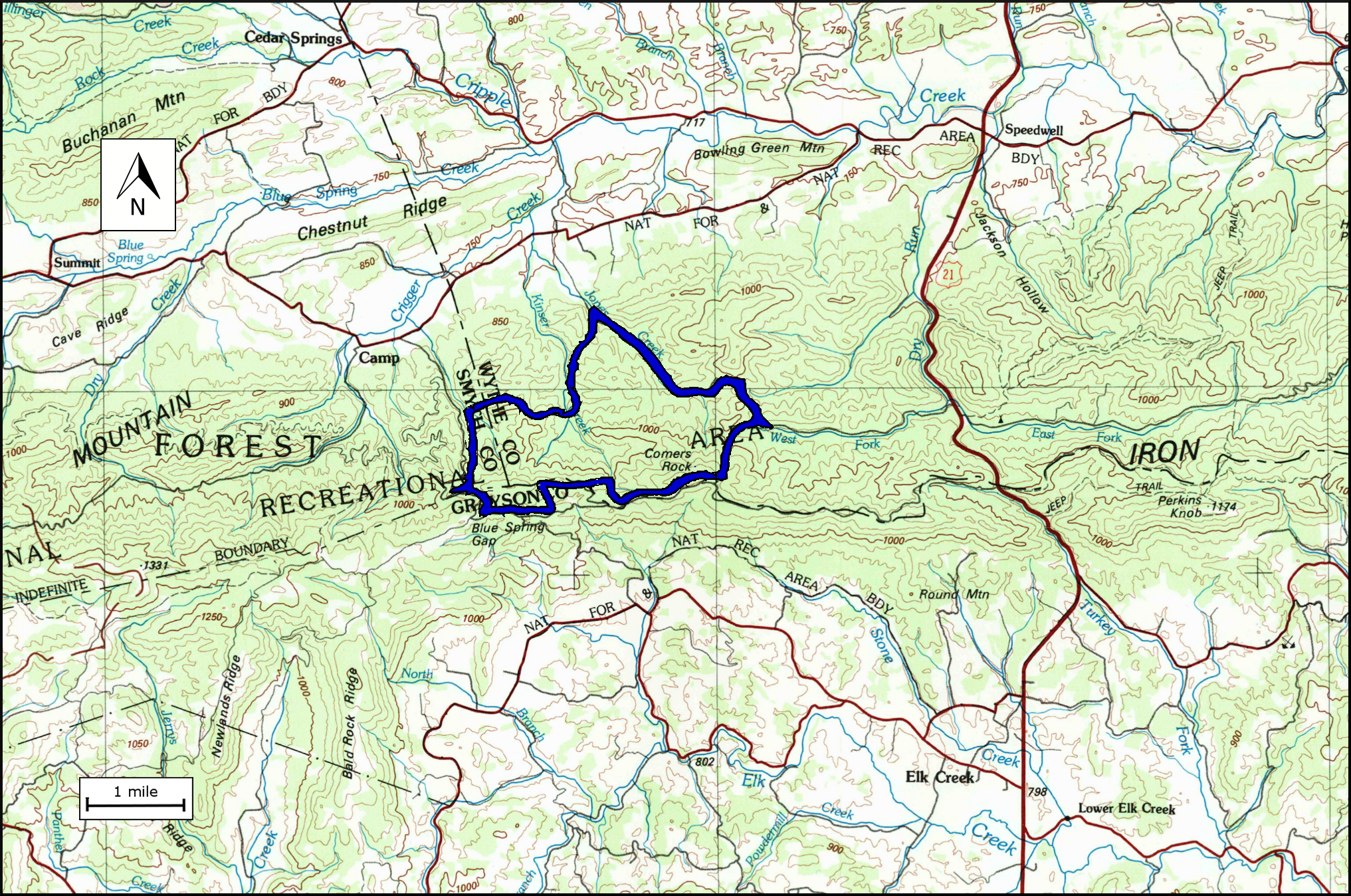 Boundary of the Little Dry Run wildland in the Jefferson National Forest as identified by the Wilderness Society